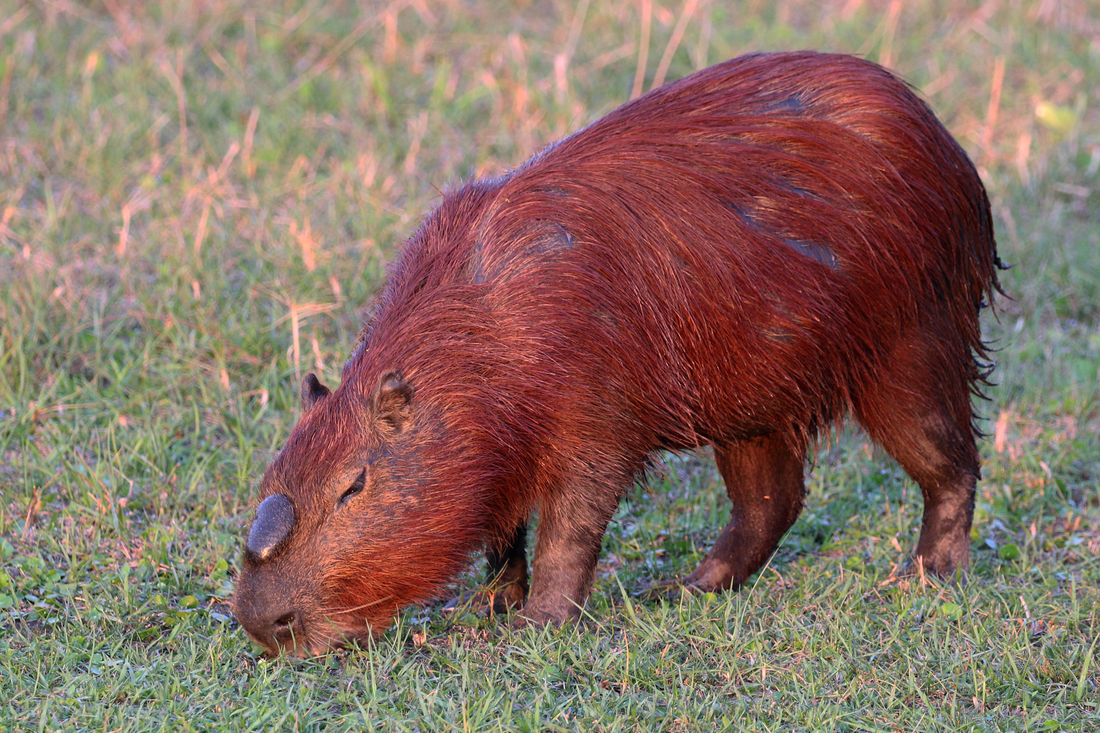 Capybara (Hydrochoerus hydrochaeris) alpha male, the Pantanal, Brazil